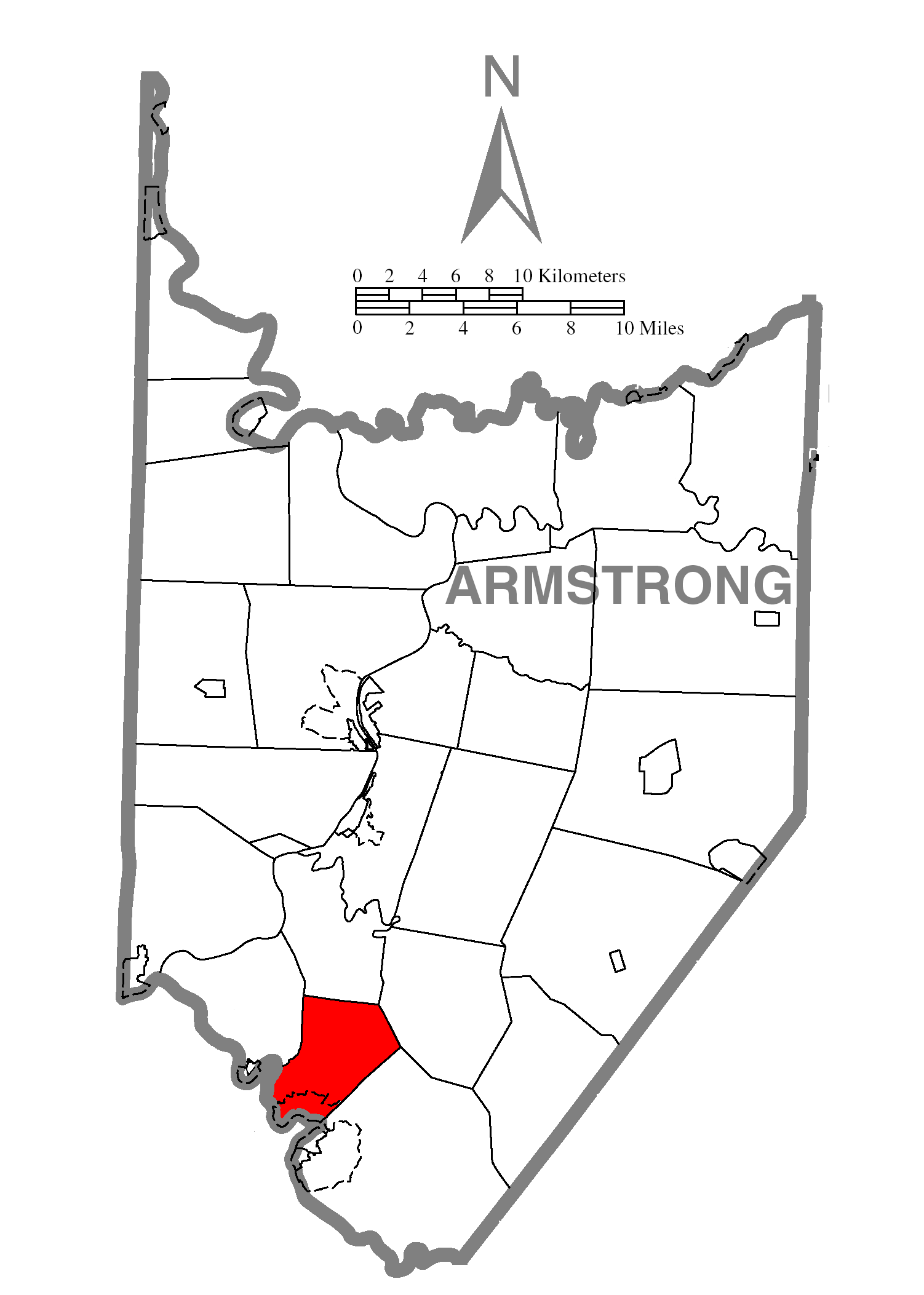 A map of Armstrong County showing Parks Township, Pennsylvania (alternate) highlighted on the map.